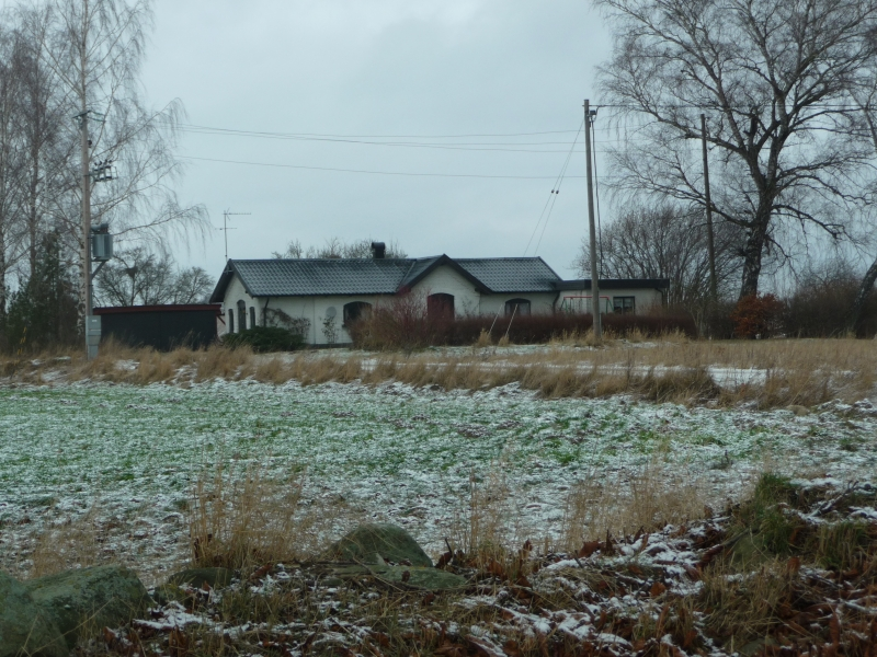 Lyngsjö station, a typical Steam Railway station at Gärds Härads järnväg, branch Skepparslöv - Tollarp - Everöd - Degeberga. This line was abandoned 1936.